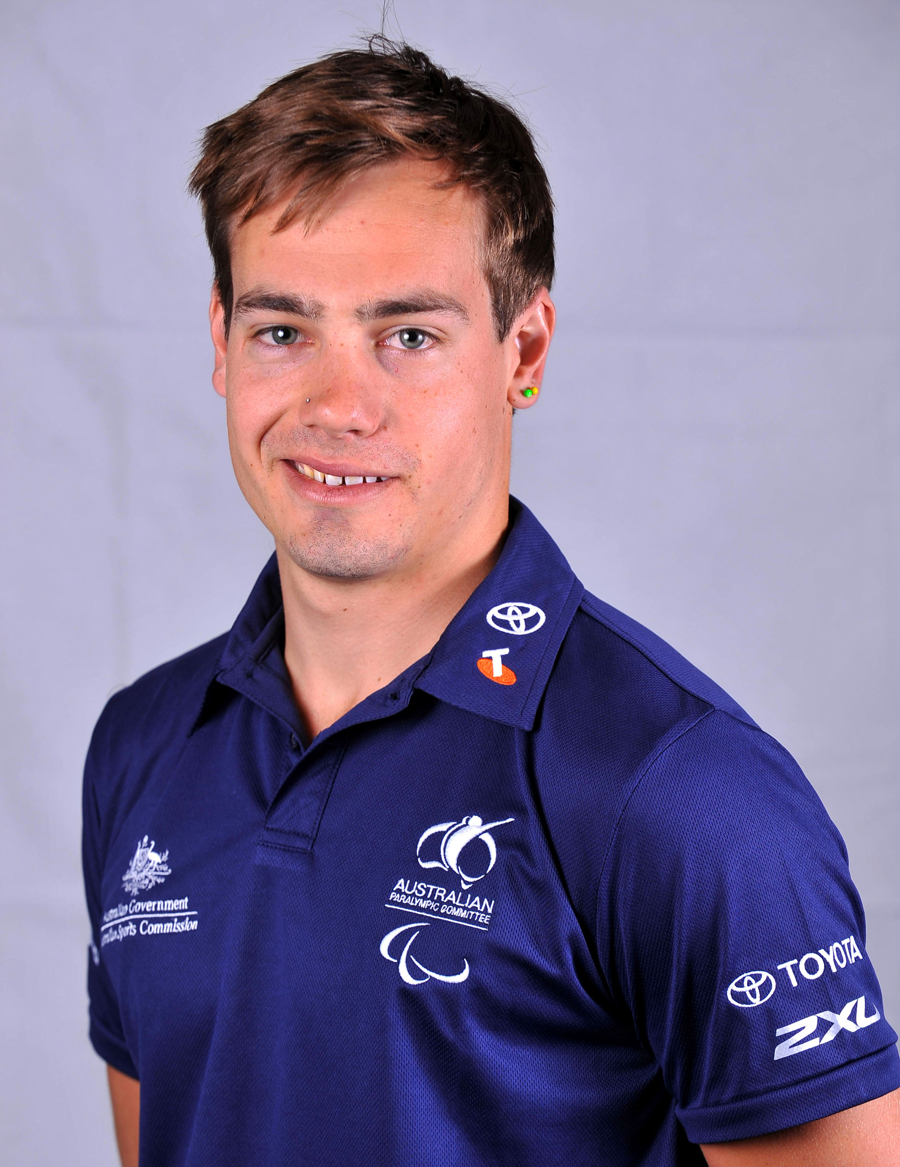 Portrait of Australian athlete Evan O'Hanlon, 2012 Australian Paralympic (shadow) Team athlete